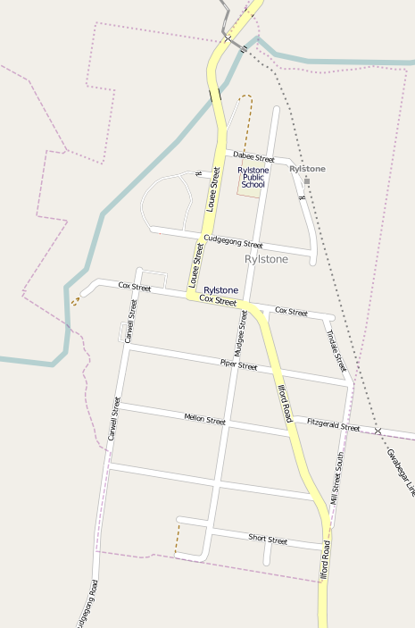 Rylstone, New South Wales, Australia - street map